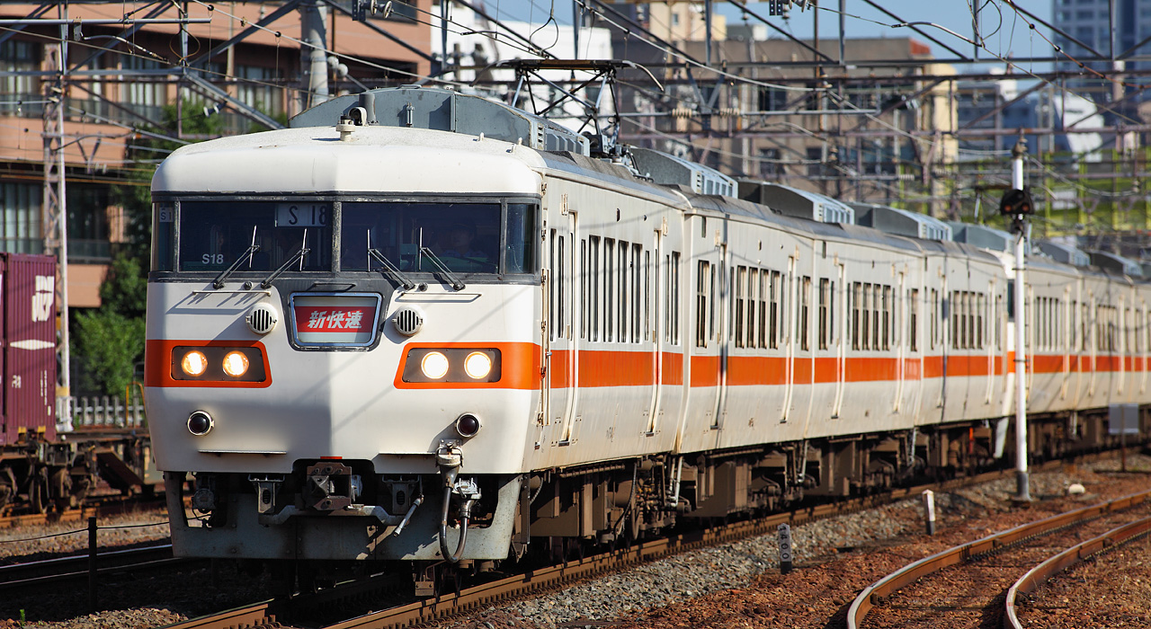 JNR 117 series EMU of JR Central, at Atsuta Stn.